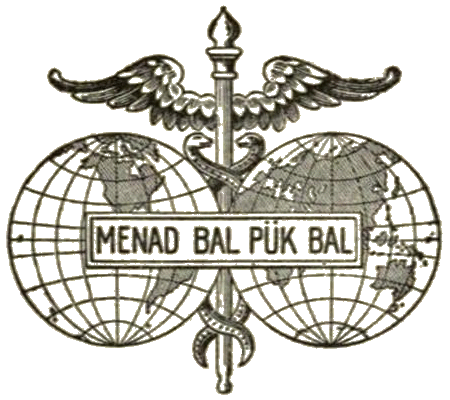 One of the symbols of the 19th-century artificial language Volapük.